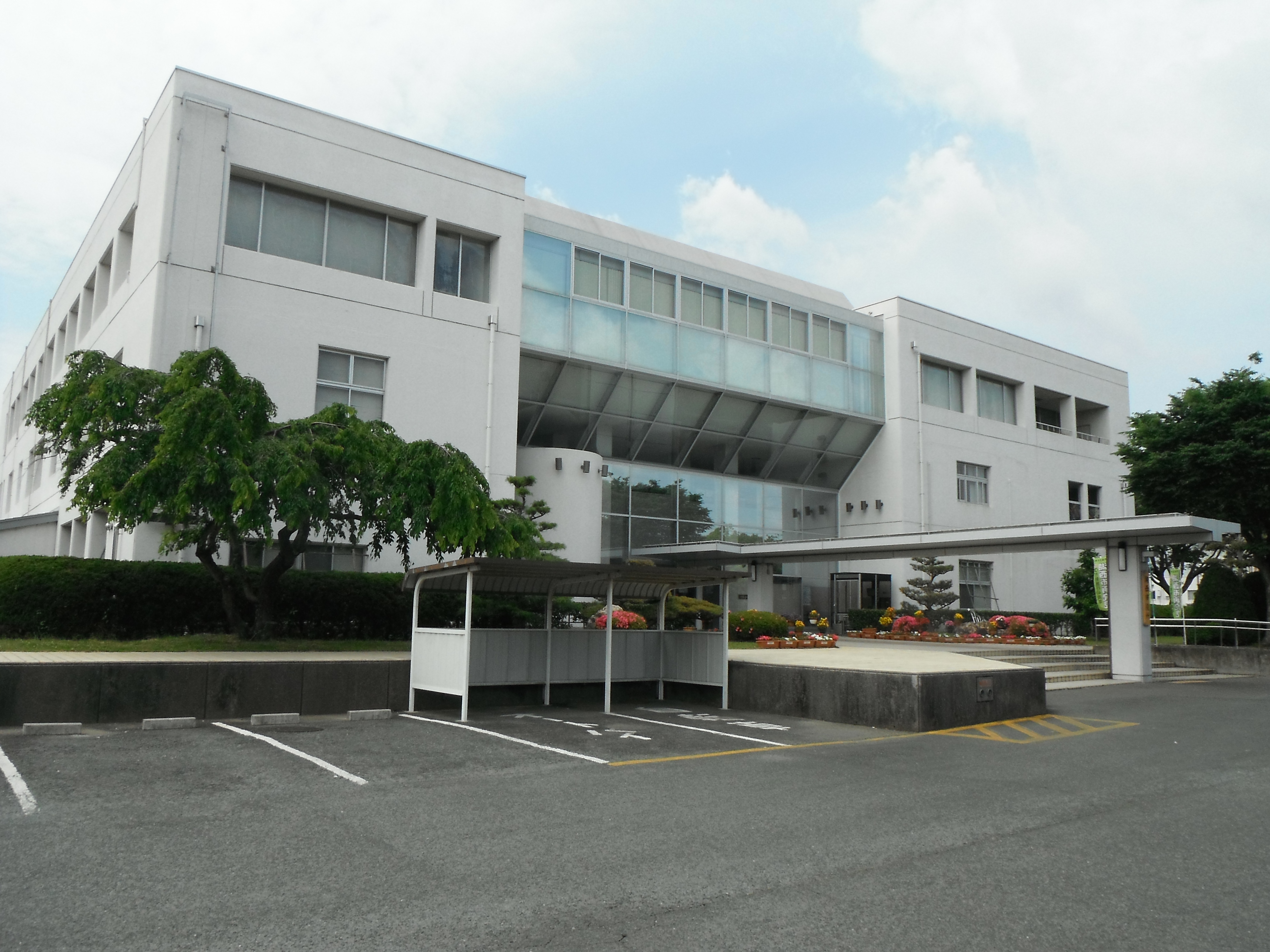 Kosai Council